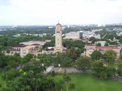 Taken by Ashig84 of the University of Puerto Rico in Río Piedras.